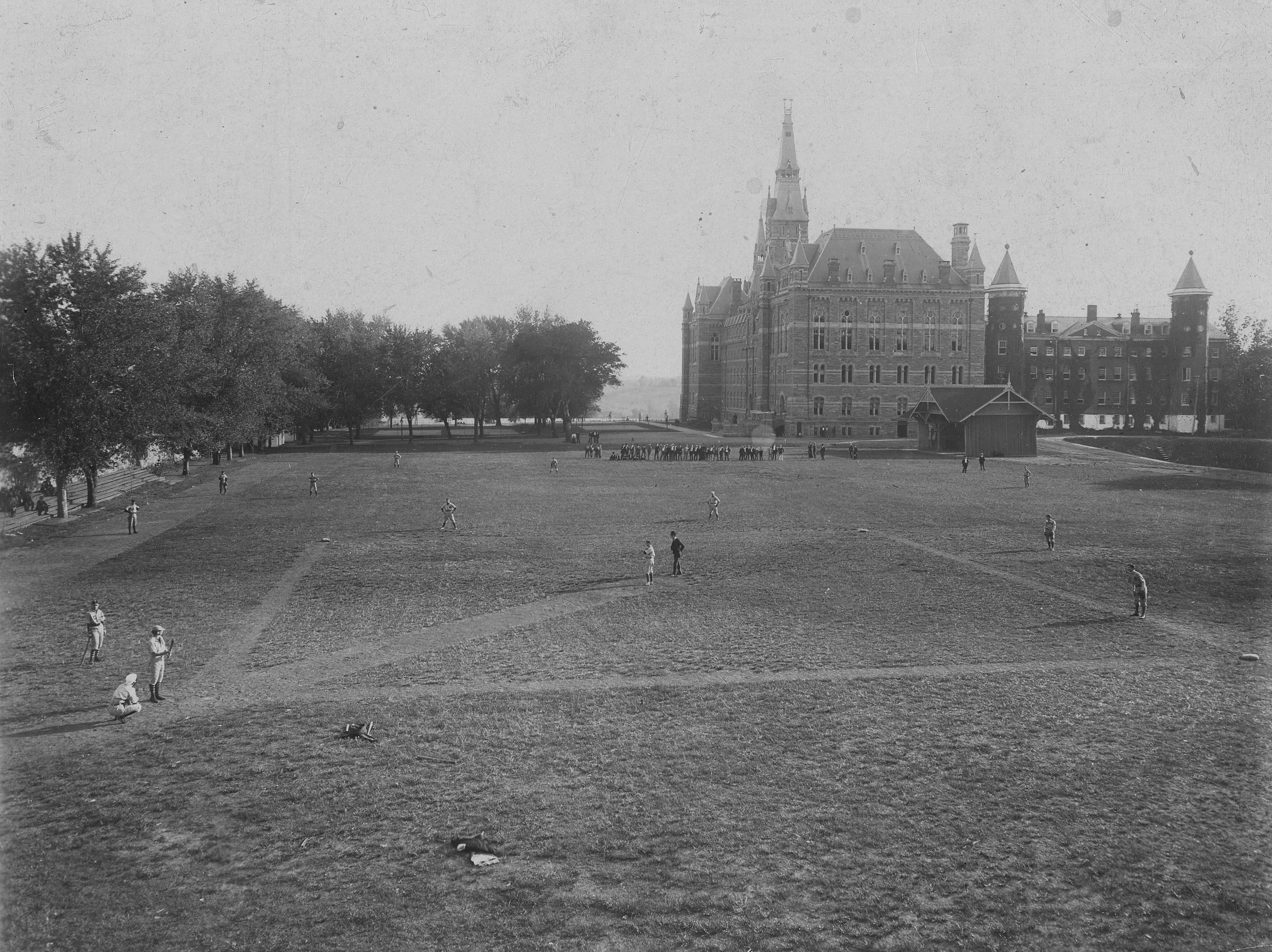 Photograph of Georgetown University in 1900. Its baseball field is in the foreground, while Healy Hall (left) and Old North (right) are visible in the background.